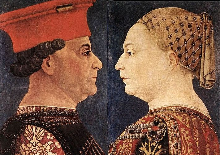 Francesco I Sforza, Duke of Milan (1401-1466), and his wife Bianca Maria Visconti (1425-1468), both painted by Bonifacio Bembo. Francesco insisted that he should be painted with the hat he was wearing as condottiere.